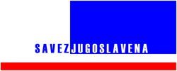 Logo of the "Alliance of Yugoslavs", an organization of ethnic Yugoslavs founded in Zagreb, Croatia in 2010